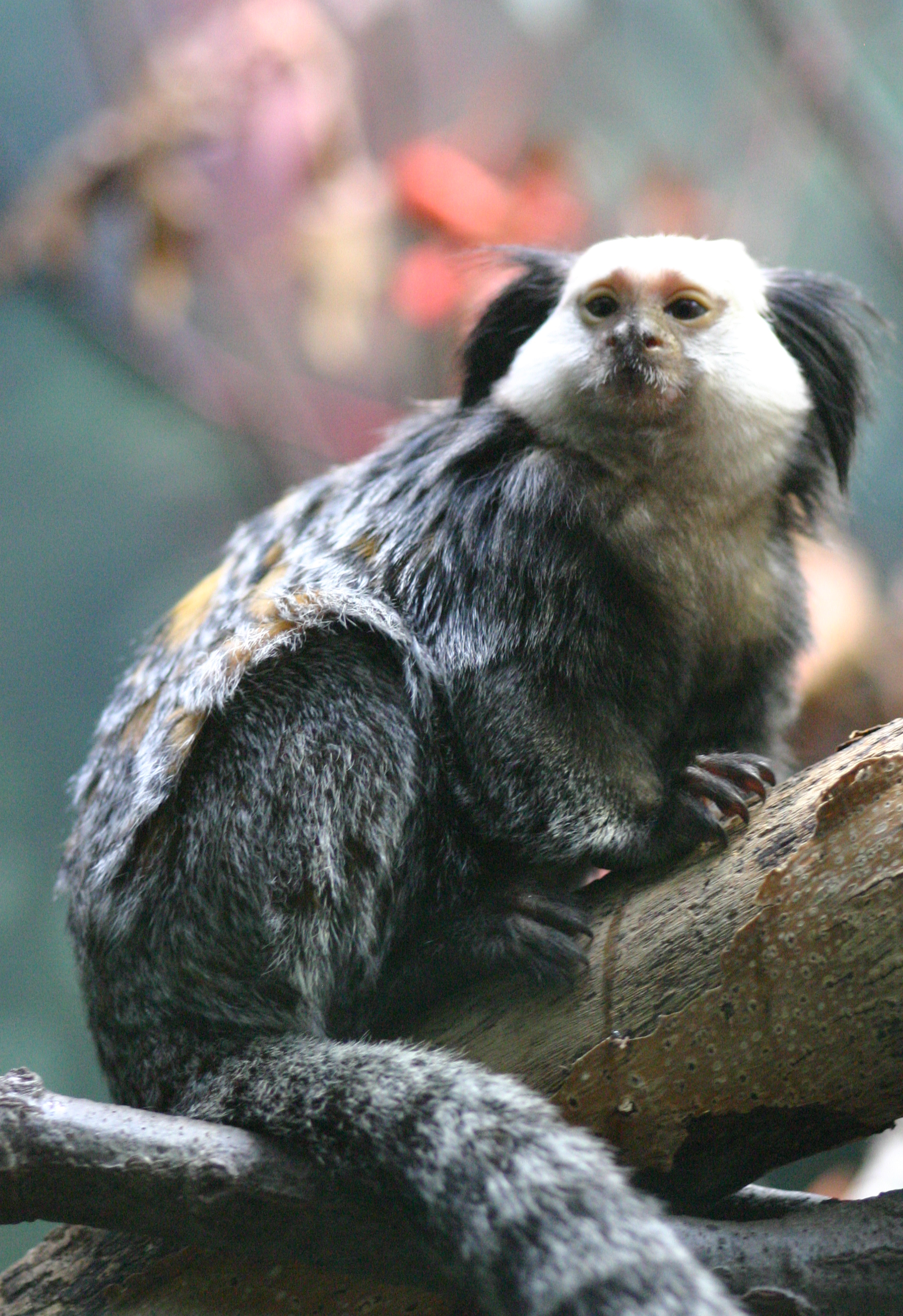 Callithrix geoffroyi, Brian Gratwicke, Nat Zoo, DC